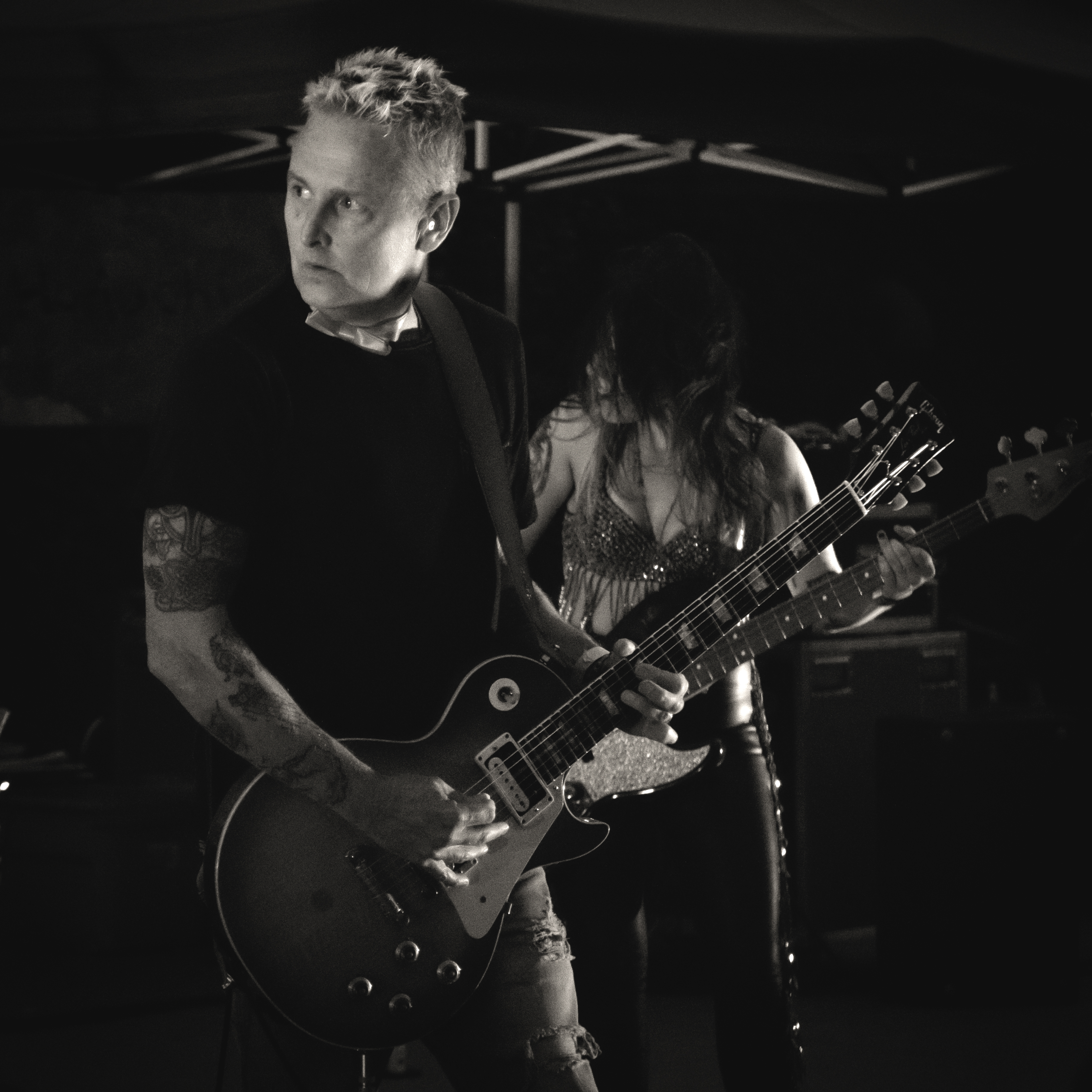 Mike McCready